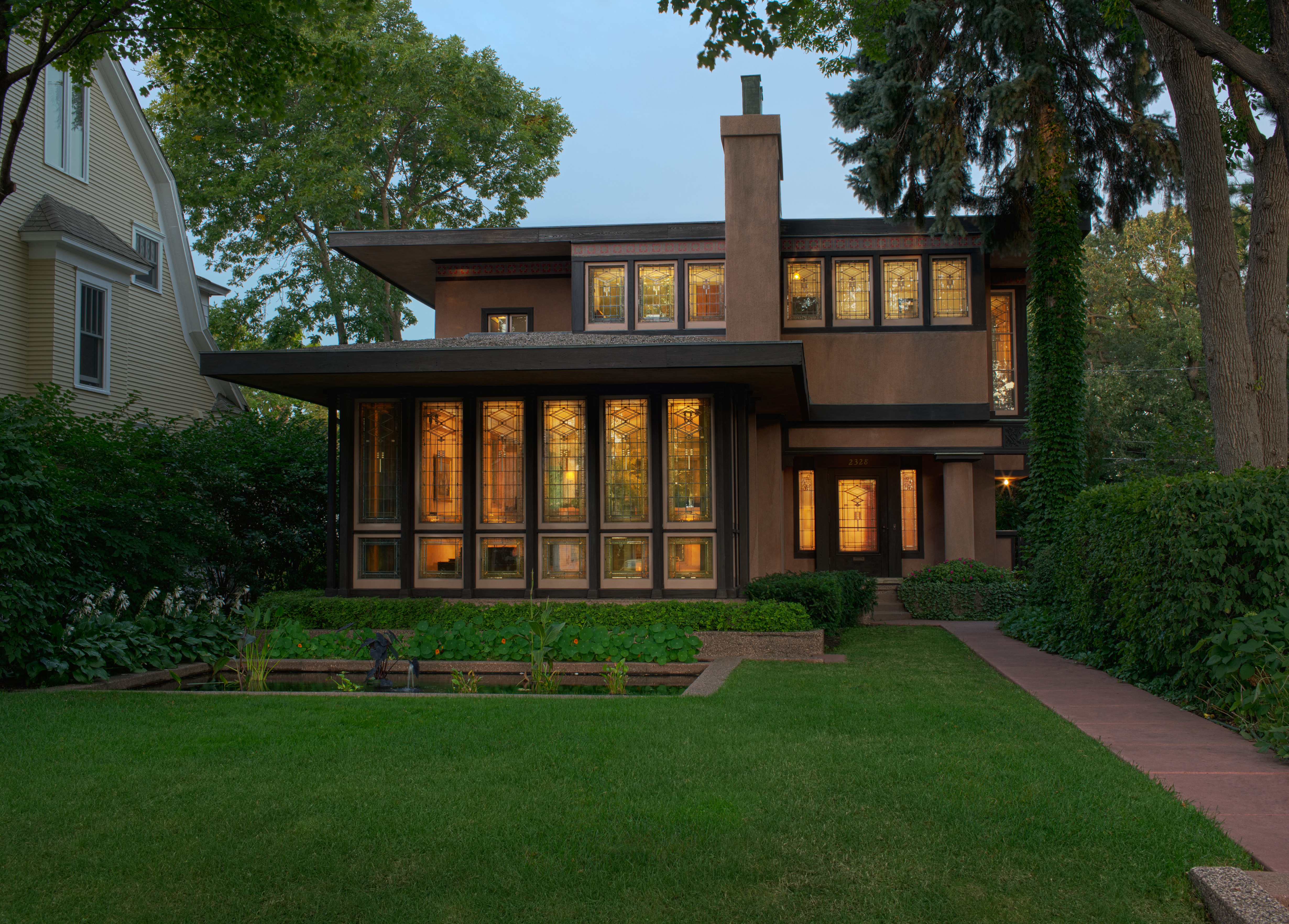 The Purcell-Cutts House (the Edna S. Purcell House), designed and built in 1913 by William Gray Purcell and George Grant Elmslie, is an example of Prairie School architecture. Located at 2328 Lake Place in Minneapolis, the house has been extensively restored and is now a part of the collection of the Minneapolis Institute of Arts.